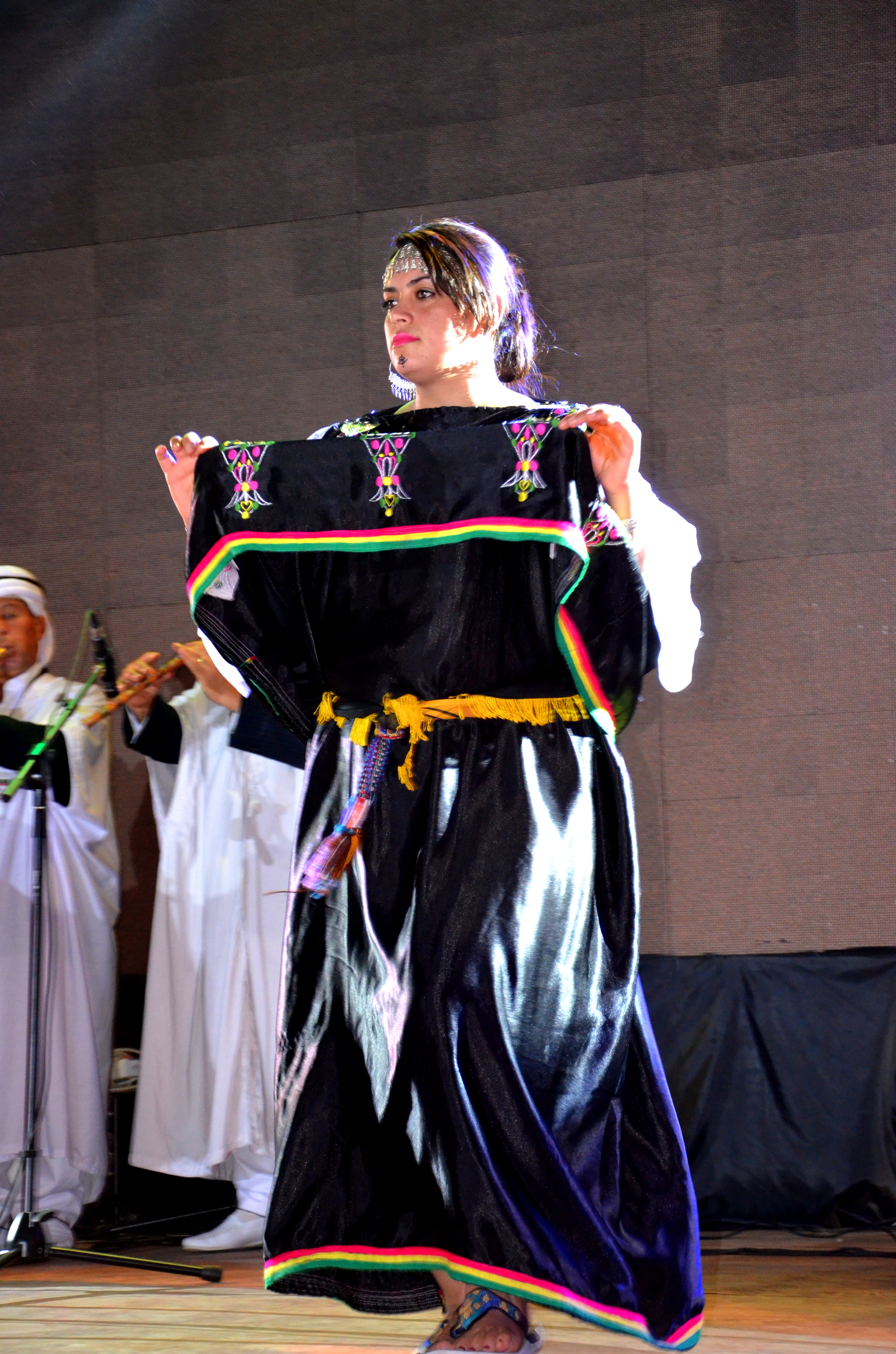 This is an image with the theme "Play" from: Algeria